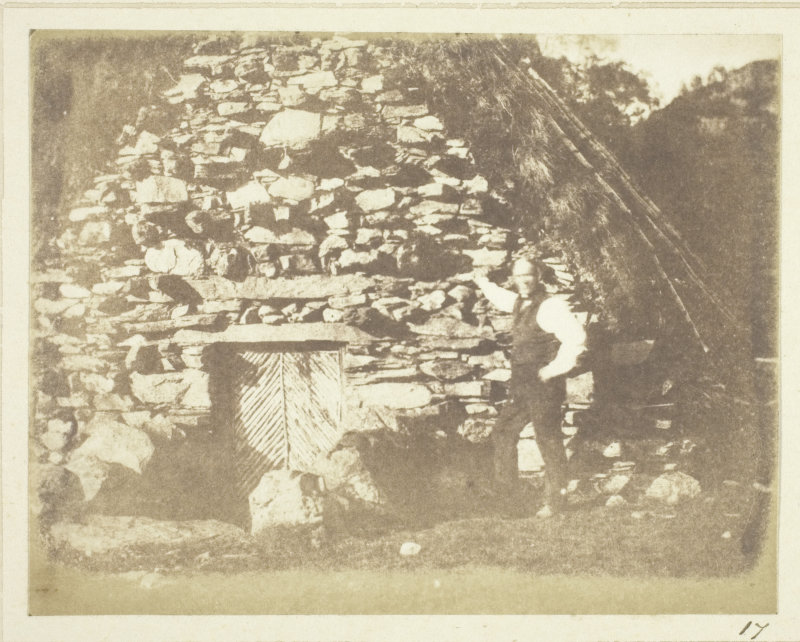 Salted paper print by Henry Fox Talbot, plate XVII from the album "Sun Pictures in Scotland" (1845)